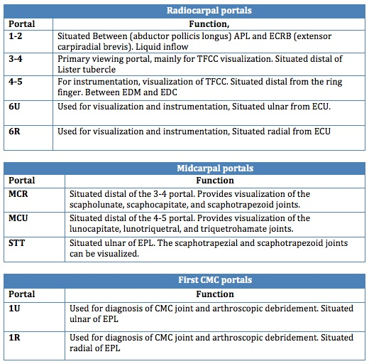 Most commonly used portals in wrist arthroscopic procedures